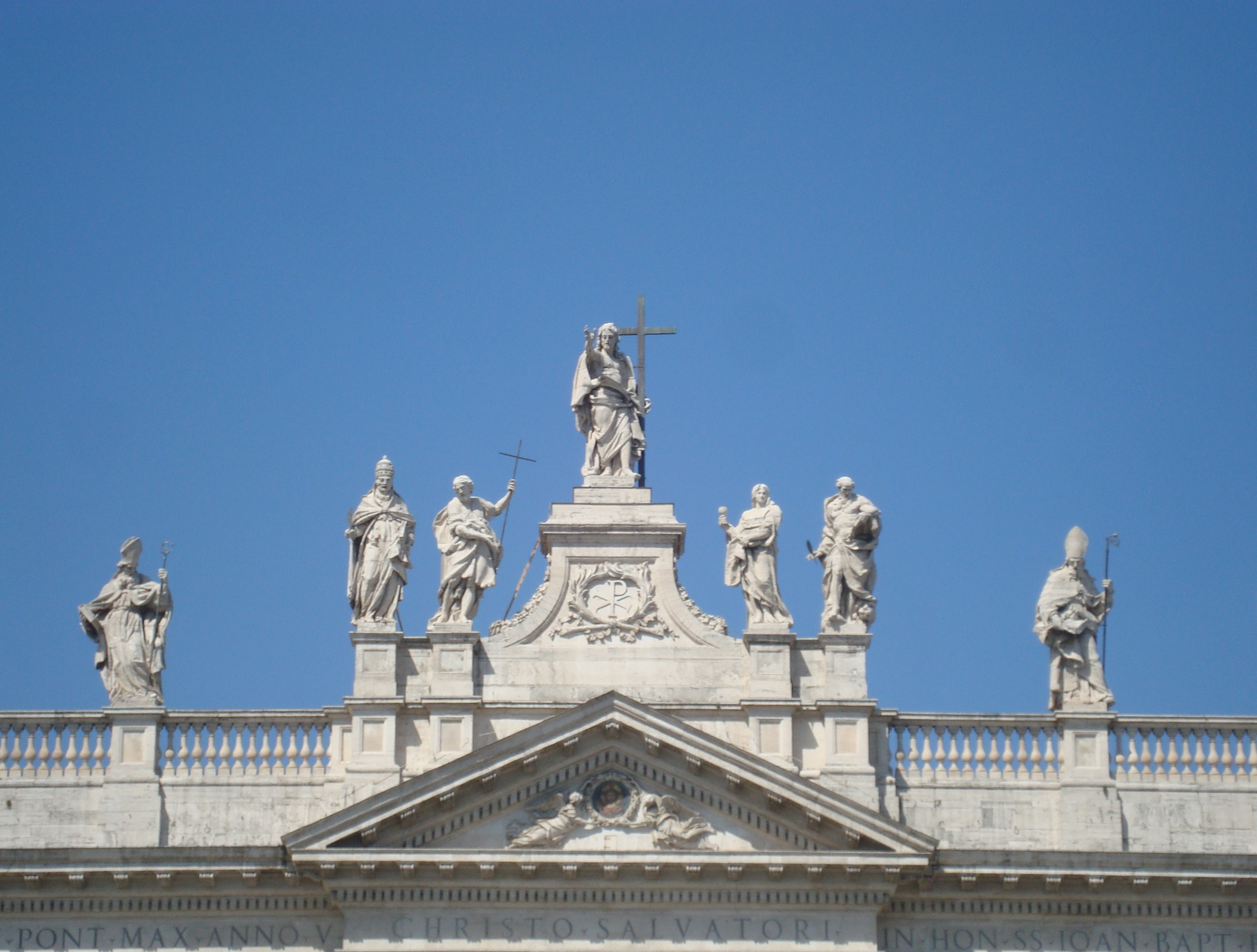 The facade of San Giovanni in Laterano in Rome. Detail of the statues (christ and apostles)